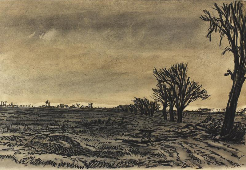 War Drawings by Muirhead Bone- the Untilled Fields